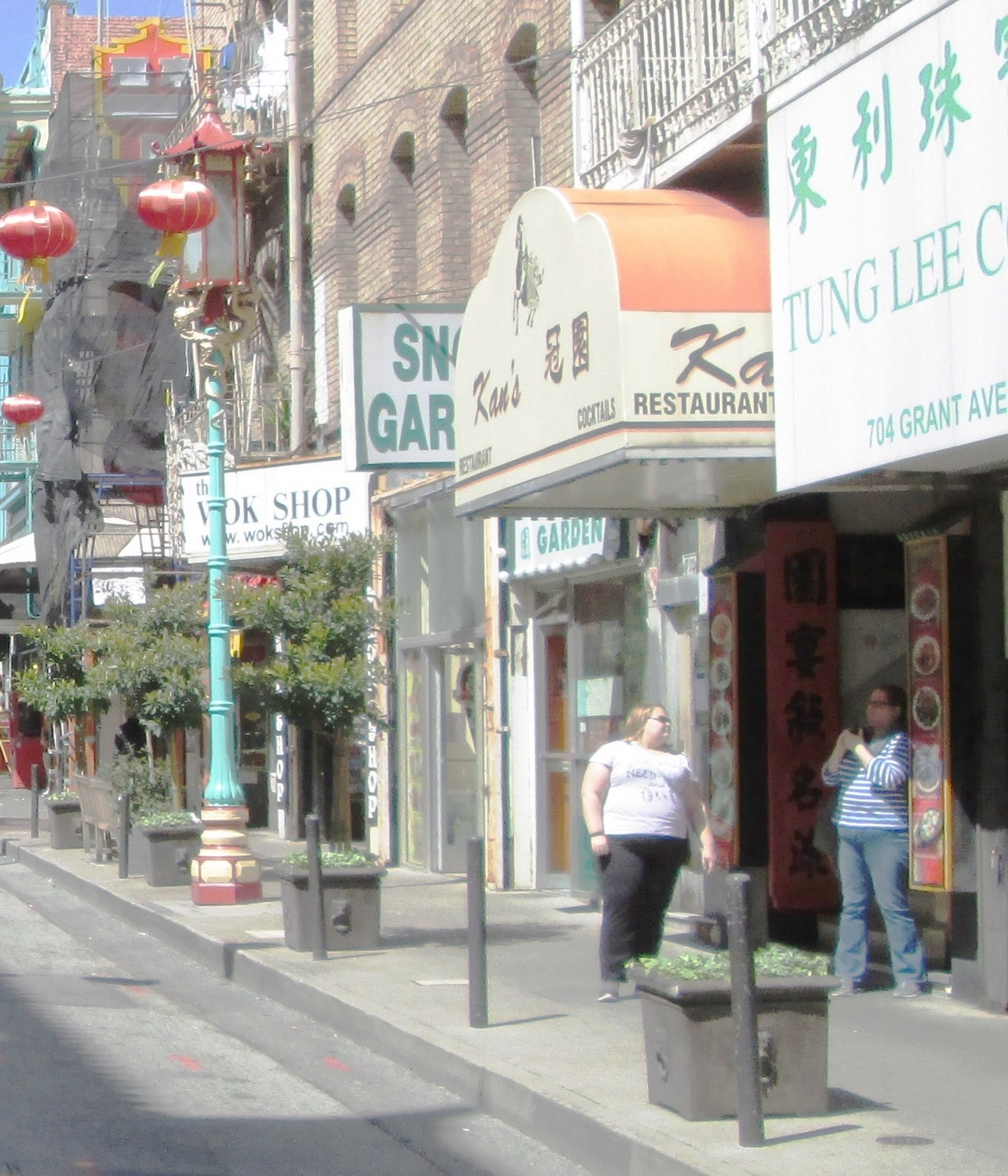 Grant Avenue in Chinatown, San Fracisco, looking north from Sacremento Street.